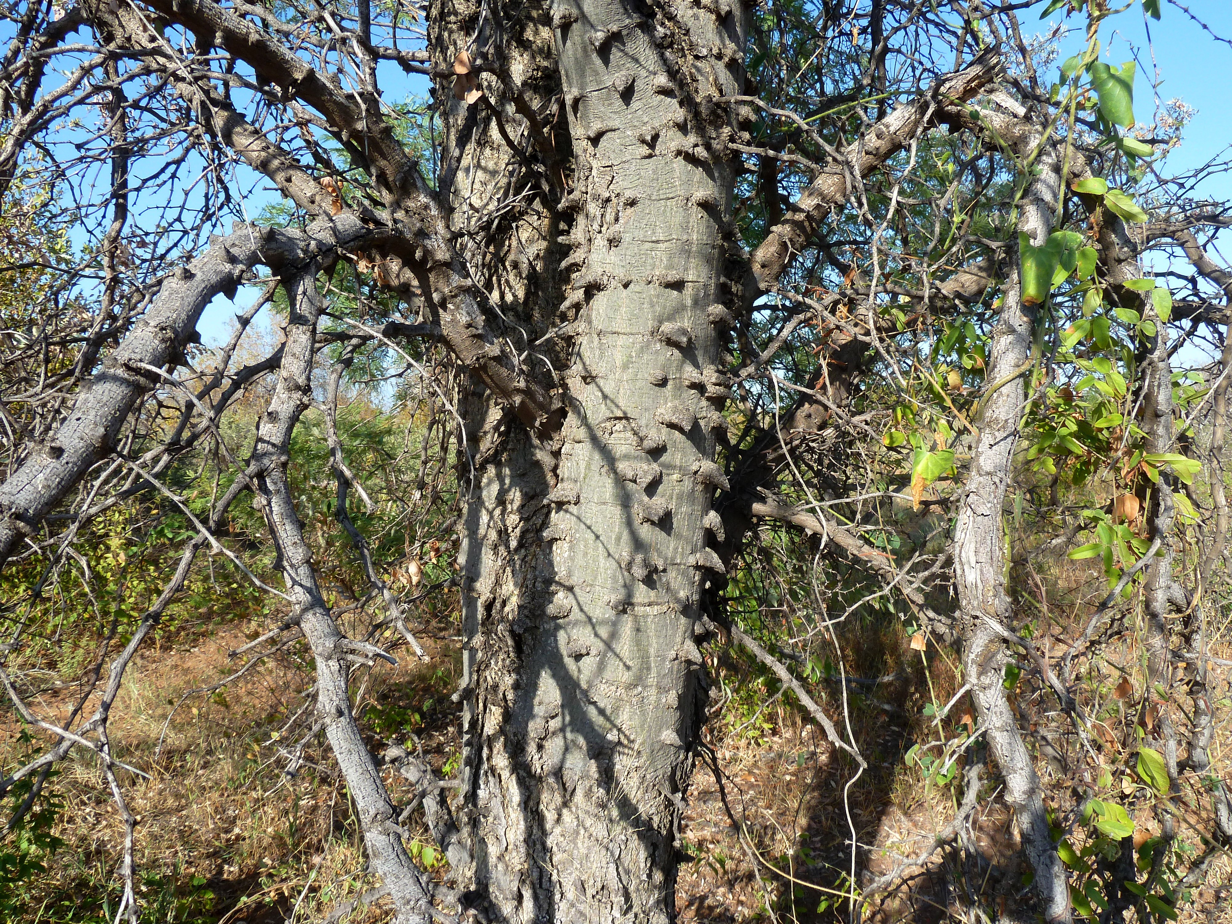 Knobs on bark of a Knobthorn tree at Zinyathi lodge, Steenbokpan, Limpopo